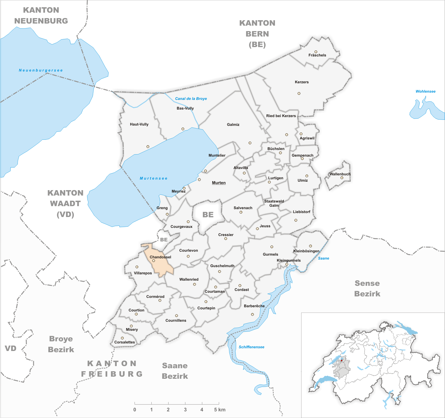 Municipality Chandossel Artist: Tschubby